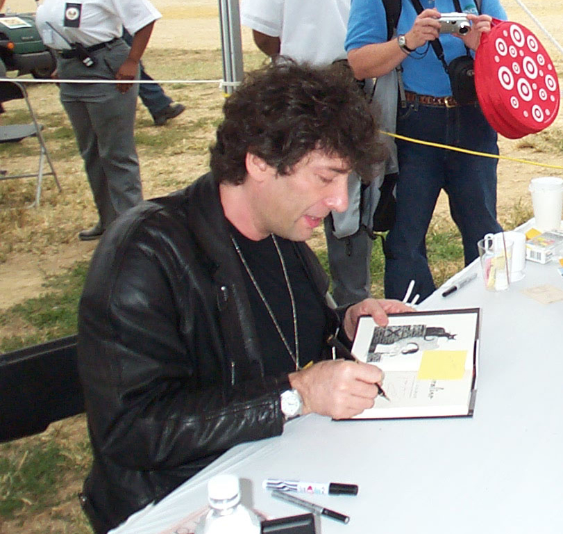 Photo by Jennifer Horn Neil Gaiman autographic a copy of Coraline at the National Book Fair in Washington, in 2005